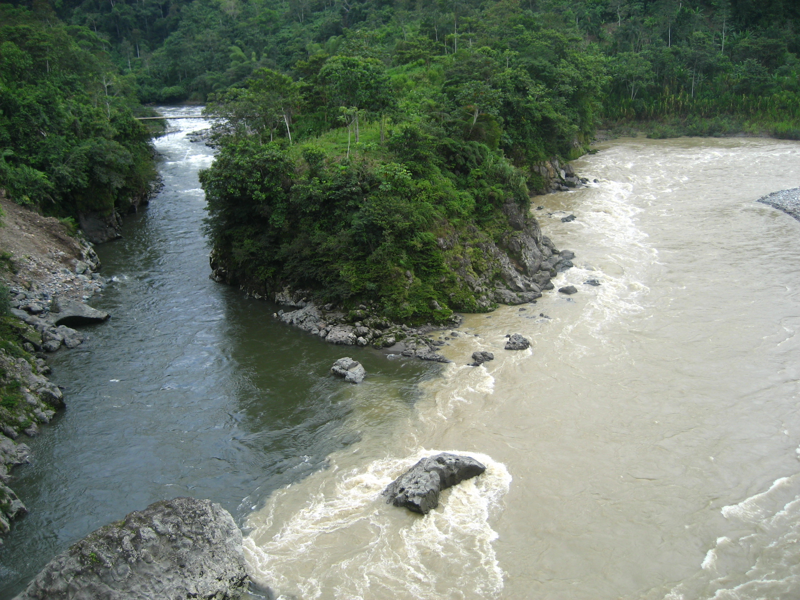 Confluence of the Negro and Upano Rivers, Morona Santiago, Ecuador